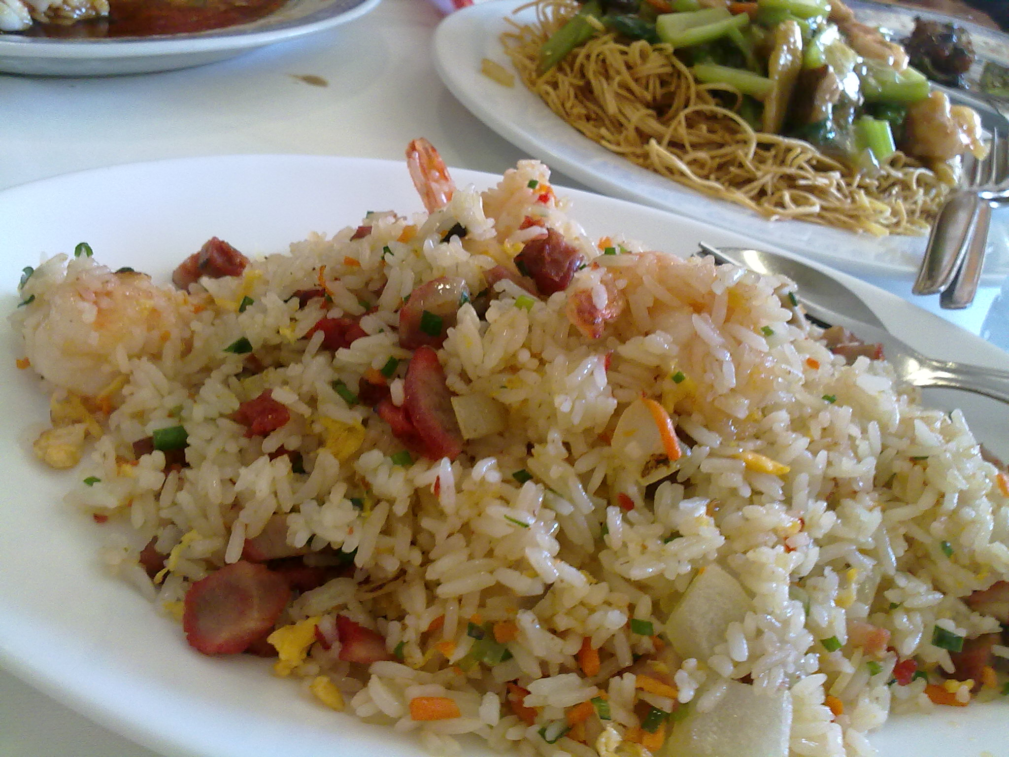 Yeung Chow fried rice in Cacém, Portugal.